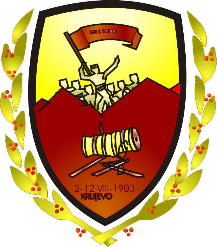 Coat of arms of Kruševo Municipality